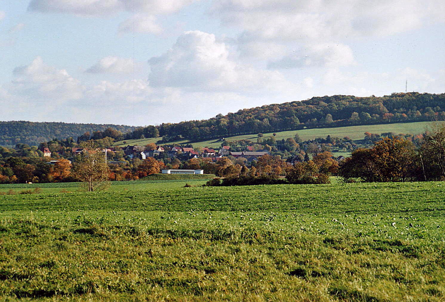 This image shows Cotta and the Cottaer Spitzberg (391 metres) five kilometer south of Pirna in Saxony, Germany.